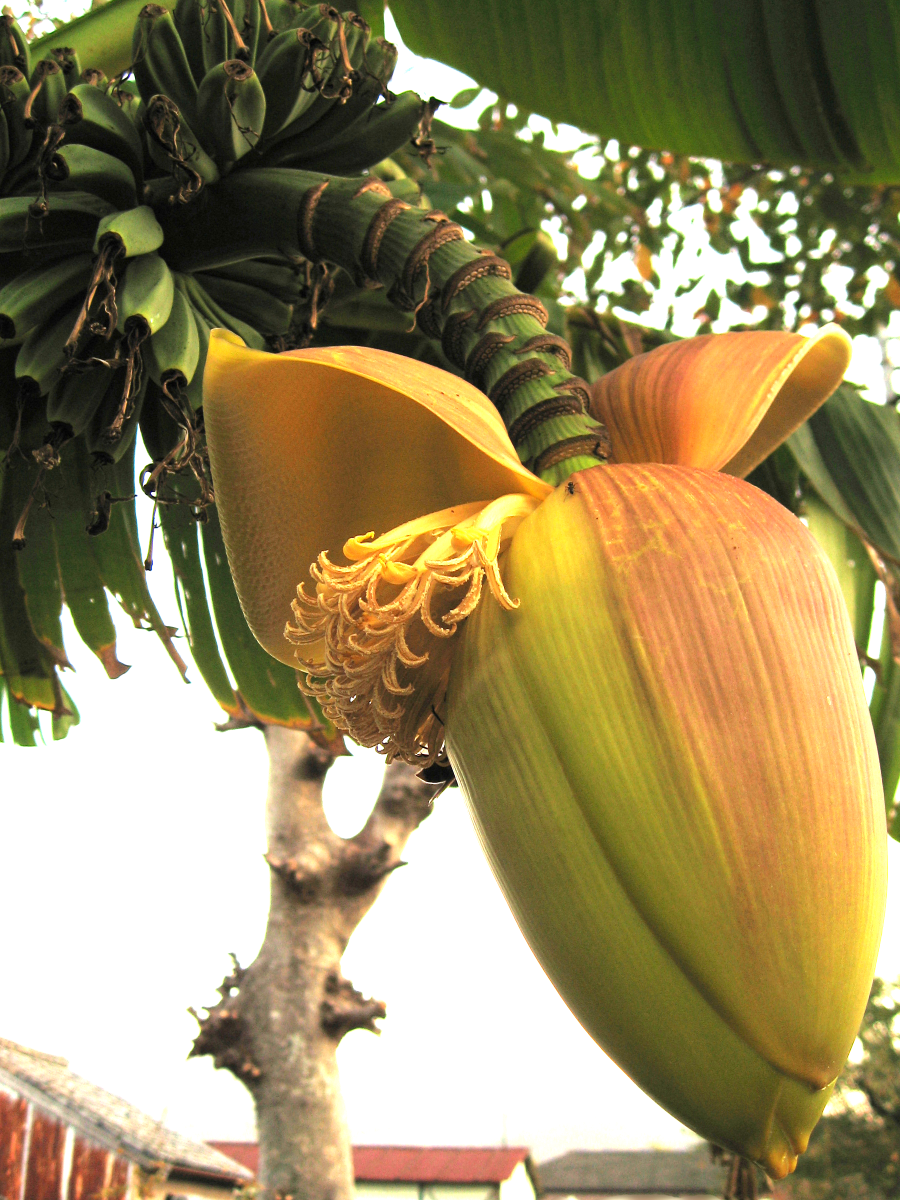 Musa basjoo (Japanese fiber banana)Uji-Nakanokiri Ise Mie Pref., Japan.